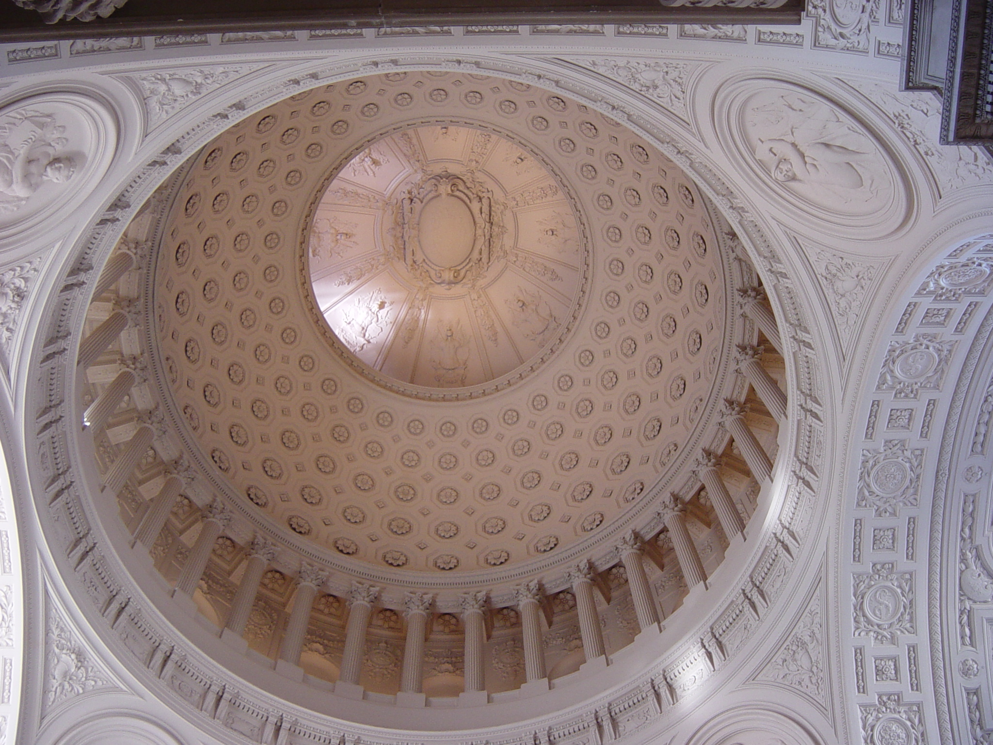 Interior of dome of San Francisco City Hall. Image by User:Leonard G.